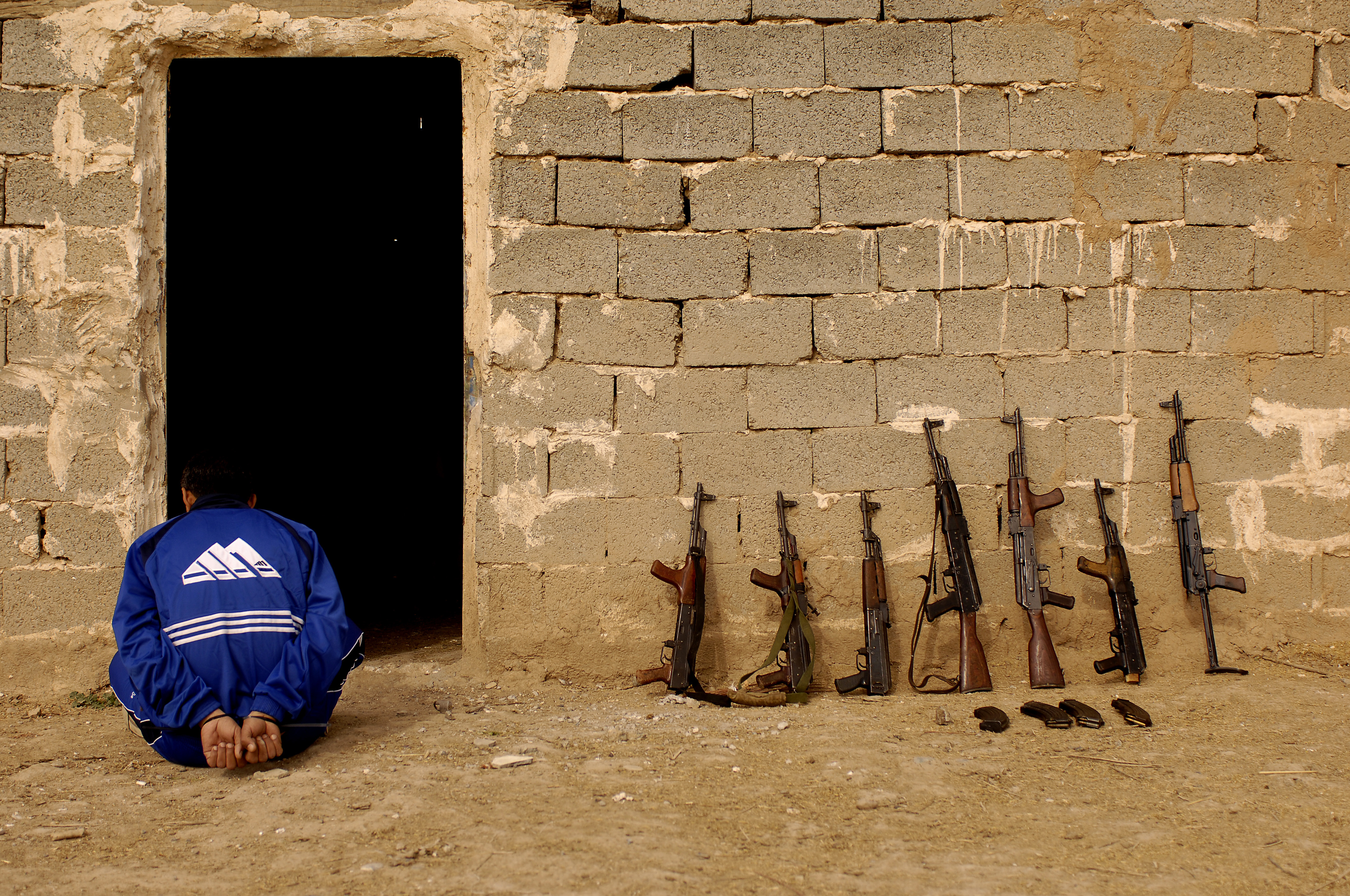 An Iraqi man waits to be questioned for having weapons that are not registered by the Iraqi Police during an Iraqi Police led search of the village by the Emergency Services Unit of Qarah Cham village, Iraq, Mar., 27, 2007. Soldiers are assigned to Headquarters Headquarters Company Headquarters Platoon, 2nd Battalion, 27th Infantry Regiment, 3rd Brigade Combat Team, 25th Infantry Division, Schofield Barracks, Hawaii.